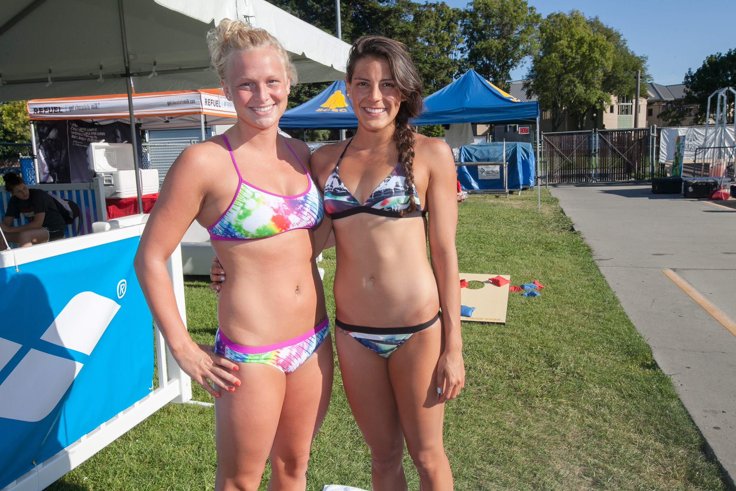 At the 2013 Santa Clara Grand Prix. Photo by JD Lasica.